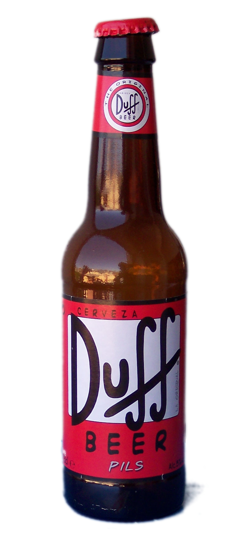 A bottle of Duff beer purchased in Florence, Italy, on may 5, 2009